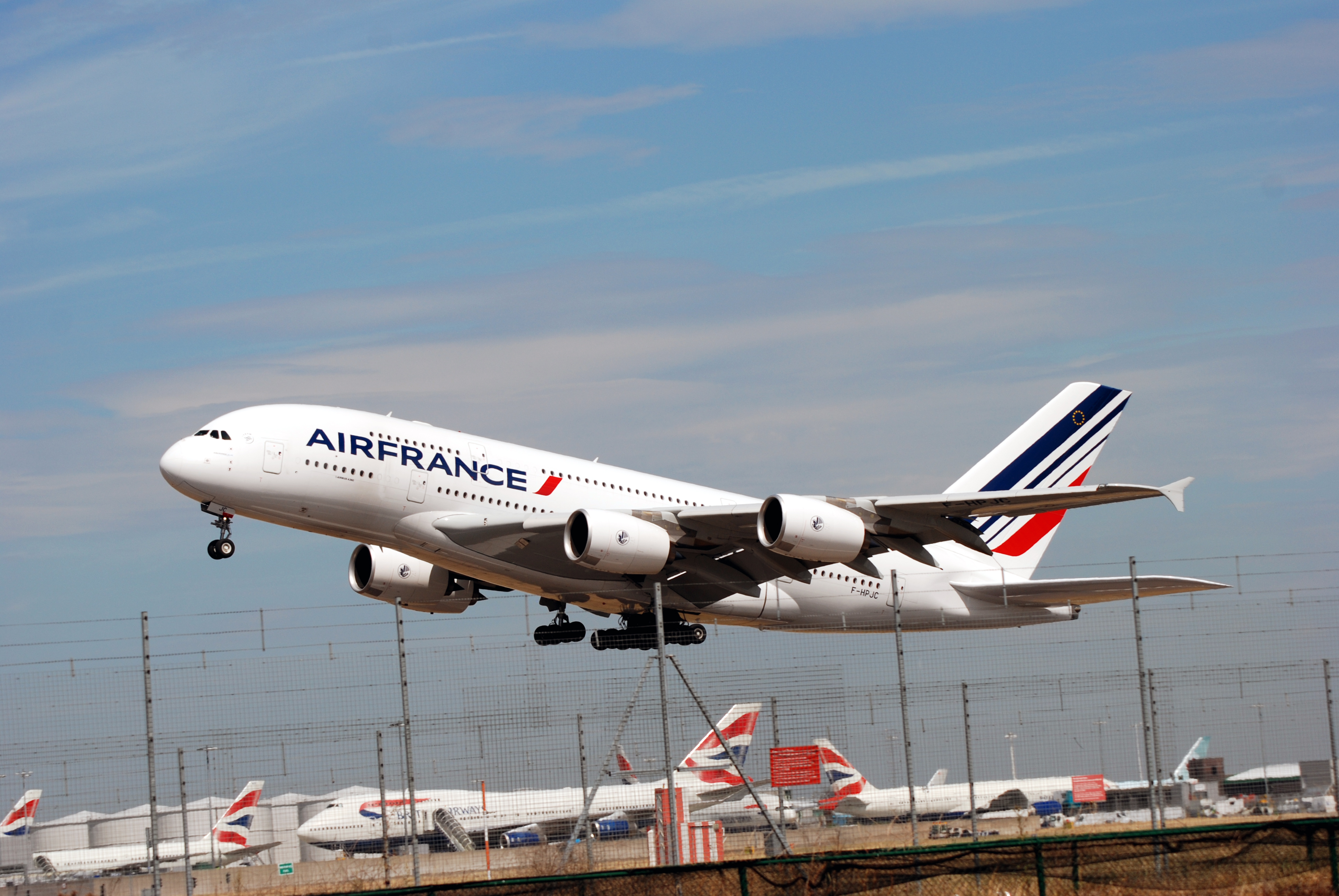 Air France A380 at London Heathrow taken from nr the Esso garage,July 2010